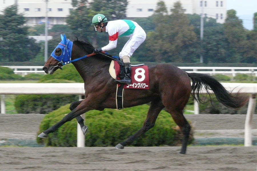 Going-power20111123